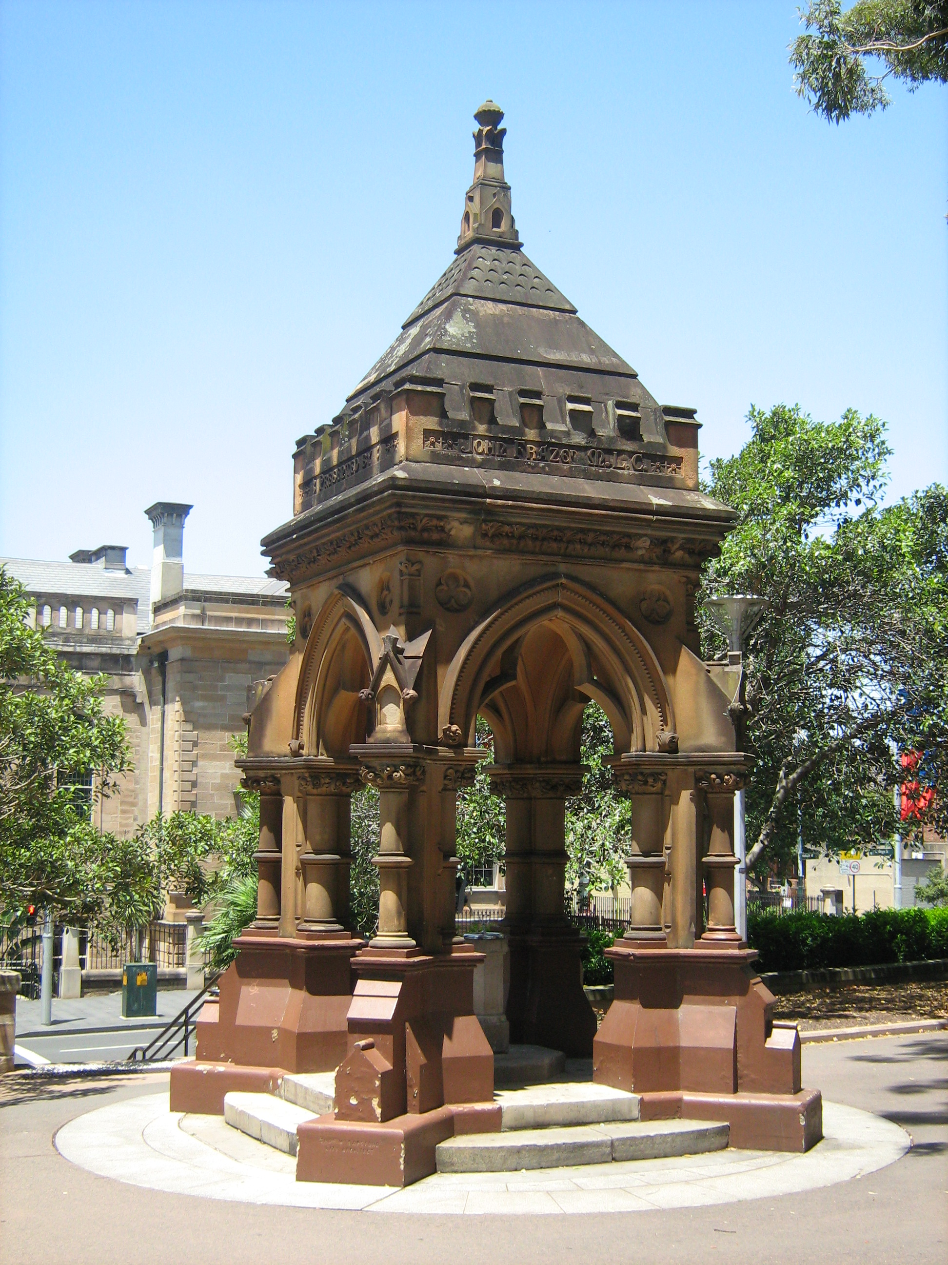 Water fountain in Hyde Park, Sydney